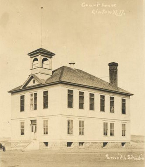 The first courthouse in Linton, North Dakota, built in 1900 and designed by M.E. Beebe, architect, Fargo, North Dakota